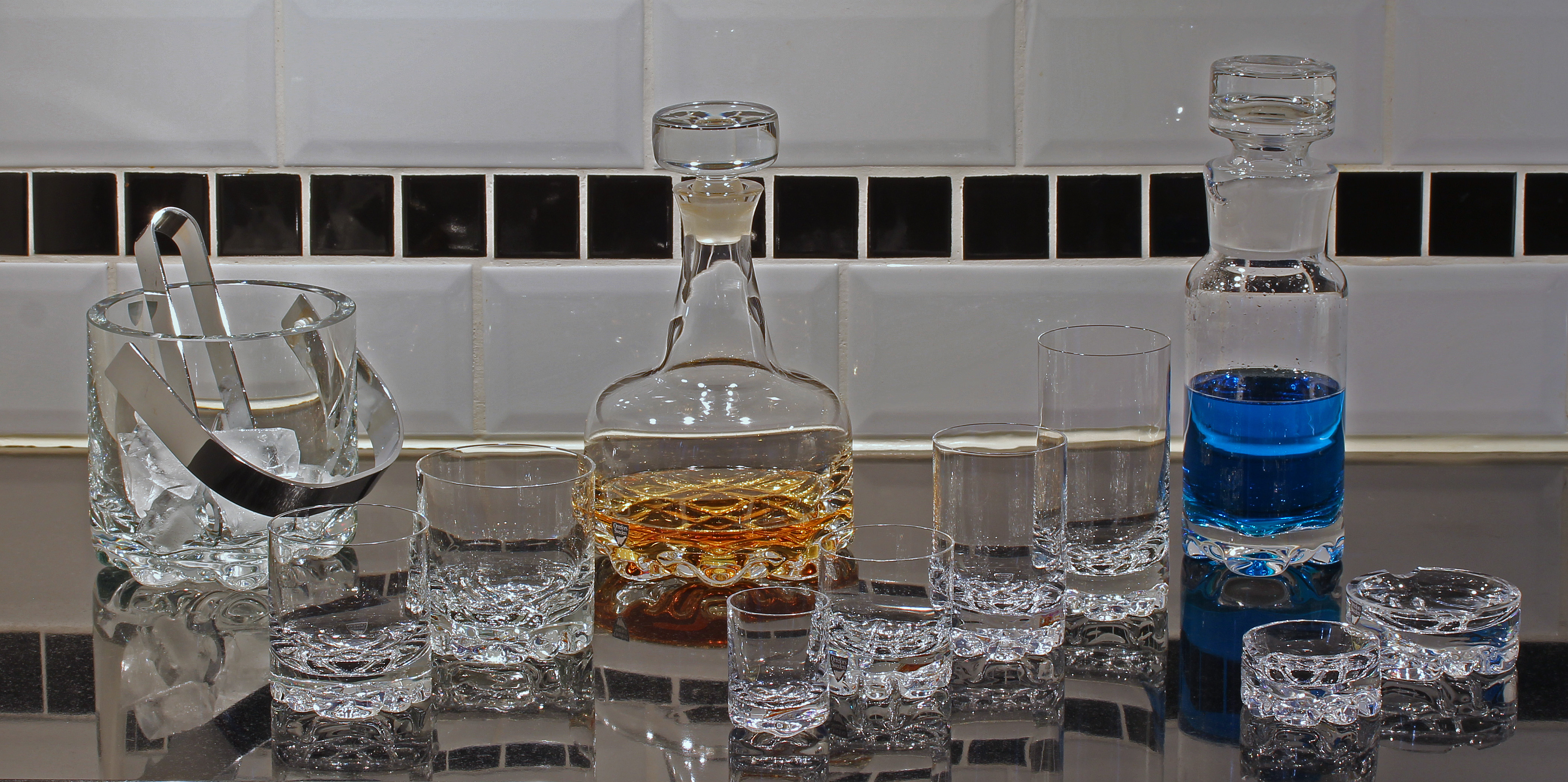 Orrefors Erik bar service